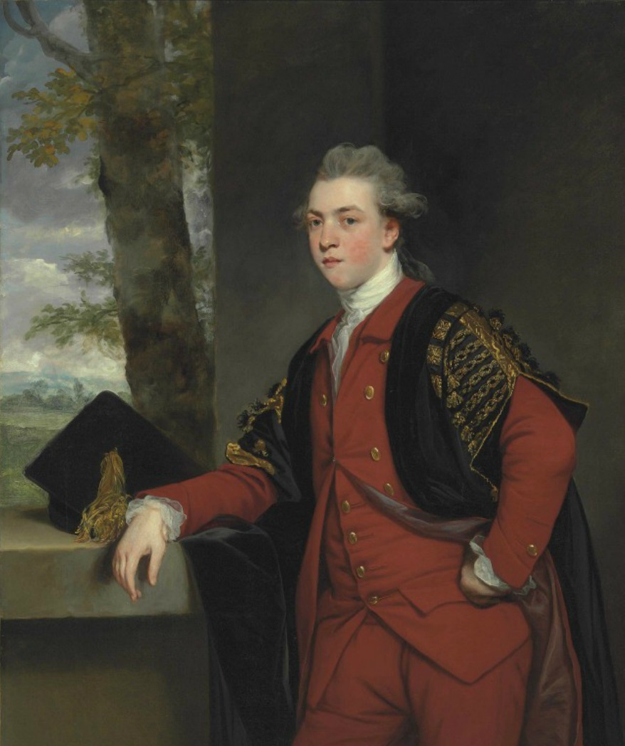 Francis Basset (1757-1835), later 1st Baron de Dunstanville. Sold by Christie's Auctioneers, Sale 2449, Old Master Paintings, 8 June 2011, New York, Rockefeller Center, Lot 80, Price realised USD 182,500. Catalogued as: "Sir Joshua Reynolds, P.R.A. (Plympton 1723-1792 London) Portrait of Francis Basset, later 1st Baron de Dunstanville and Basset (1757-1835), standing three-quarter-length, in a red suit and undergraduate robes, a mortar-board on the wall beside him"